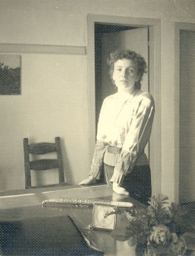 Lili Theodoridou, 1950